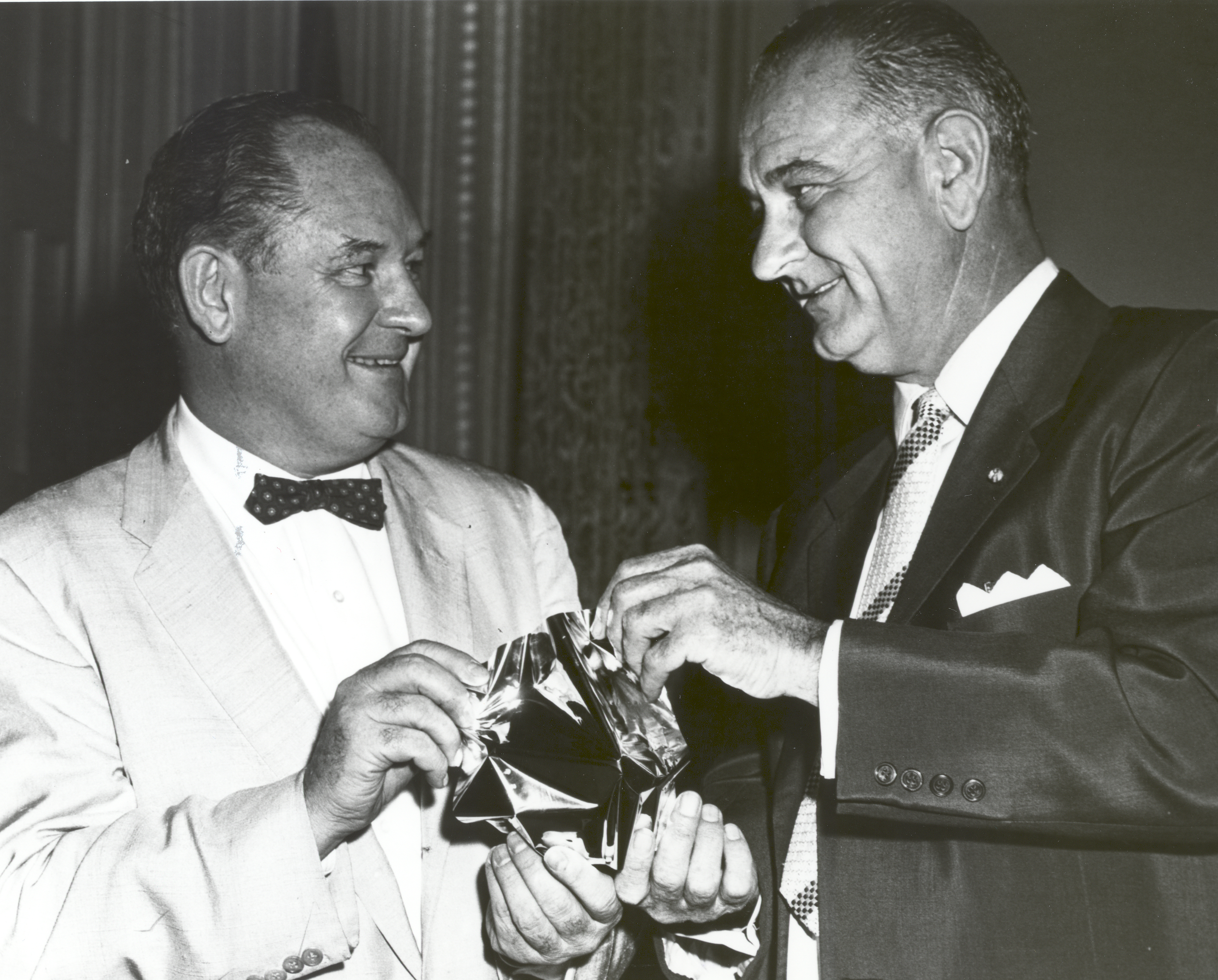 NASA Administrator T. Keith Glennan shows then-Senator Lyndon B. Johnson, Chairman of the Senate's Aeronautical and Space Sciences Committee, a sample of the aluminized Mylar film used to fabricate the 100-foot-diameter, automatically inflatable Echo I balloon. Project Echo was the U.S.'s first passive communications satellite that was launched into orbit on August 12, 1960 at 5:39 am EDT.